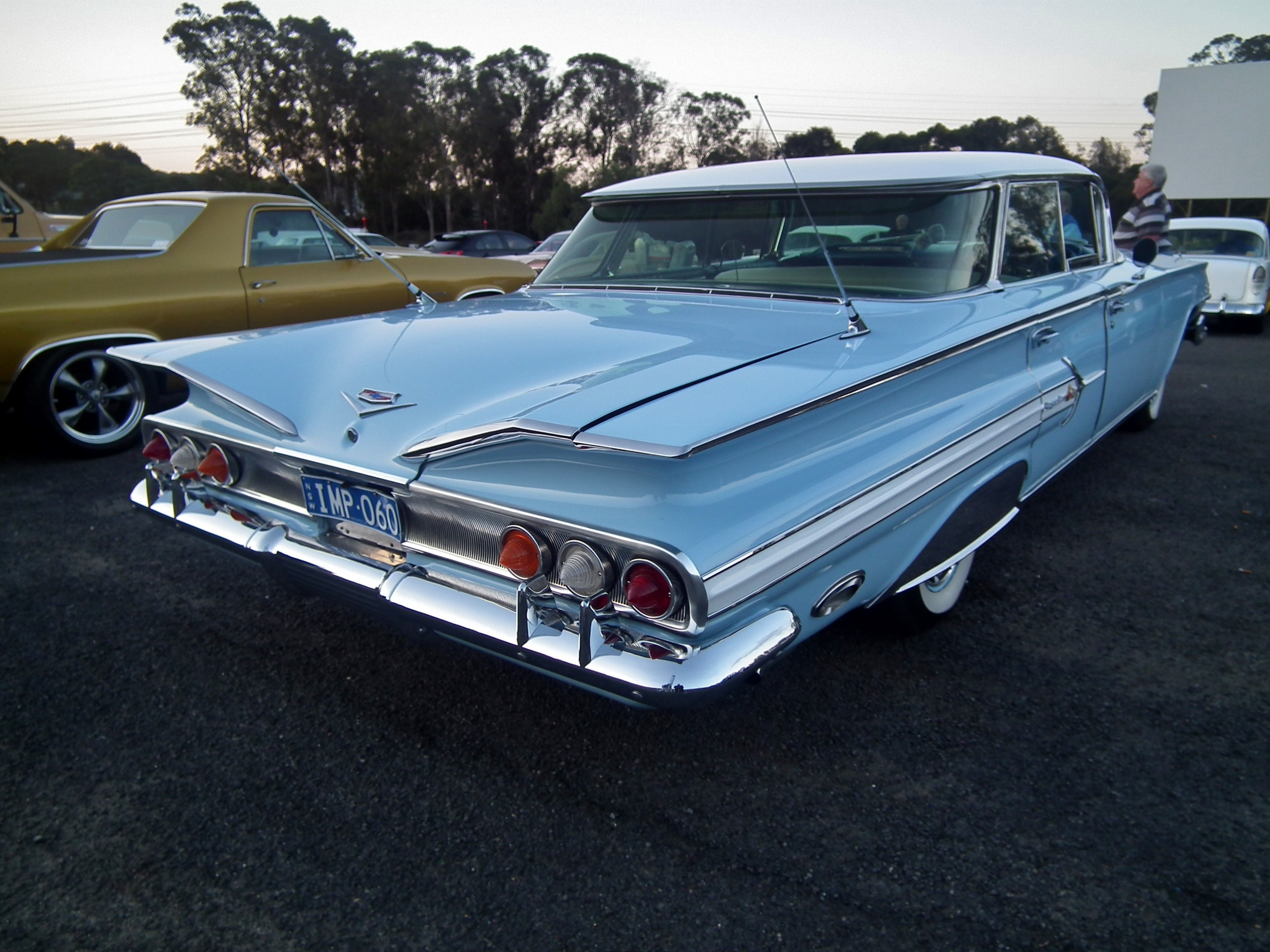 1960 Chevrolet Impala hardtop sedan. Taken at the Atura Drive-In at Blacktown during a special showing of "American Graffiti".